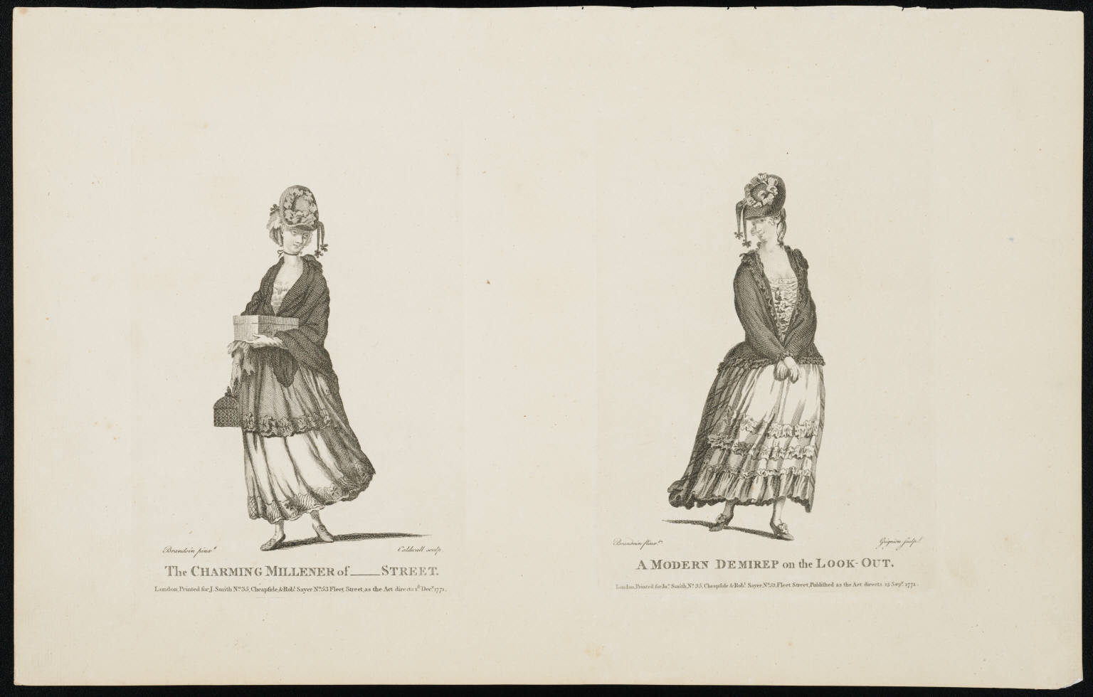 print of milliner and demirep